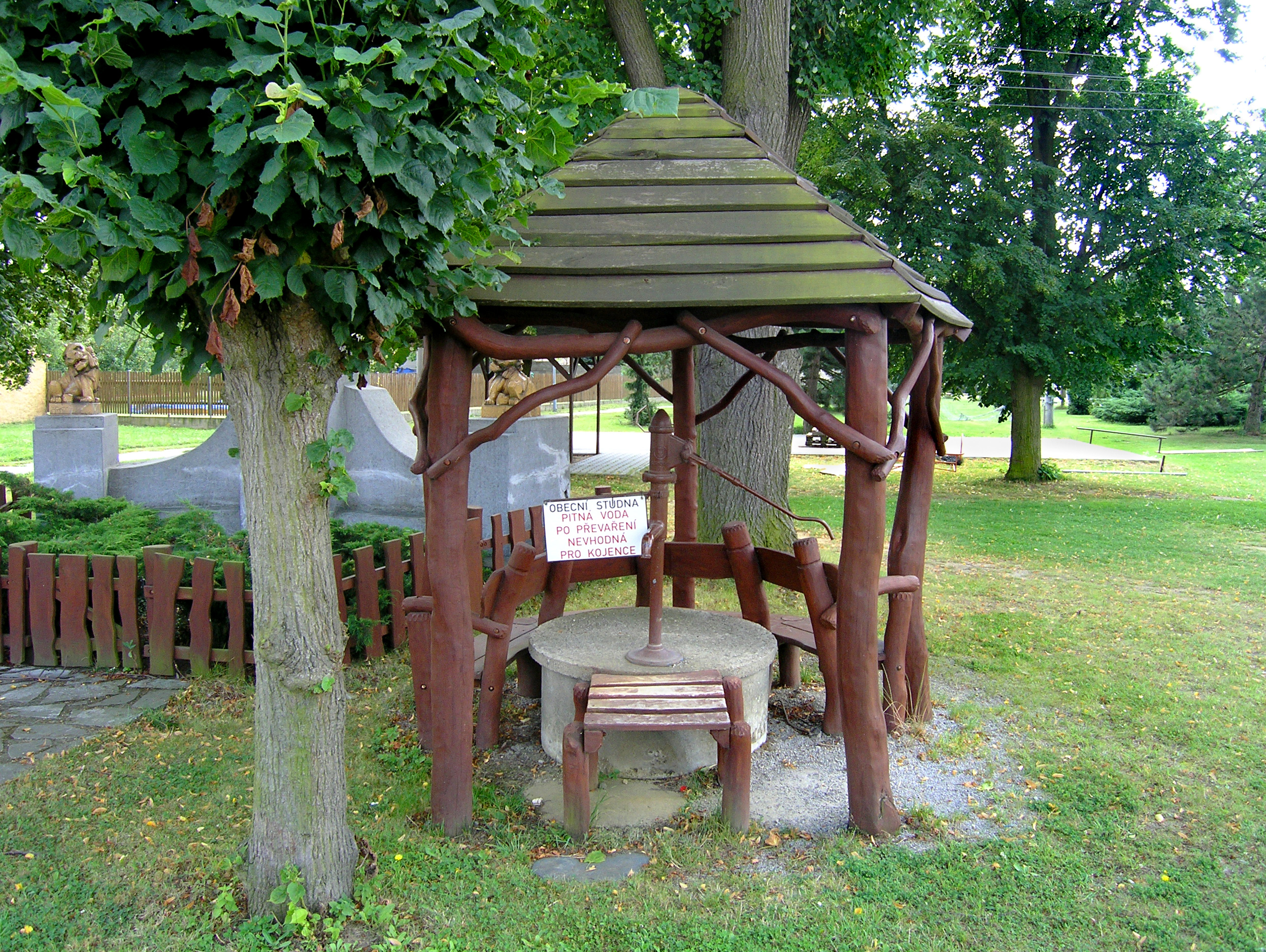 Common Well in Horní Bezděkov, Czech Republic